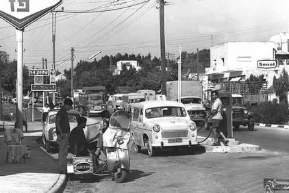 Fueling vehicles at the gas station of "Paz\"